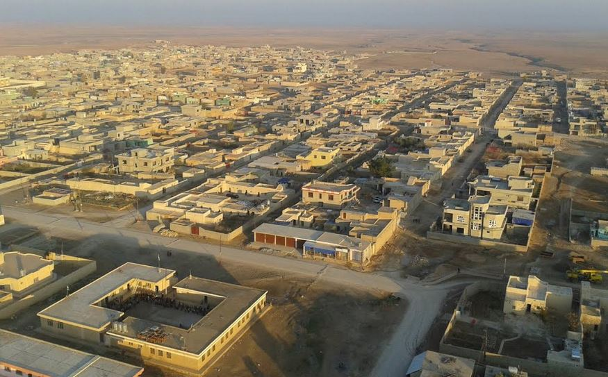 borek apartment complex